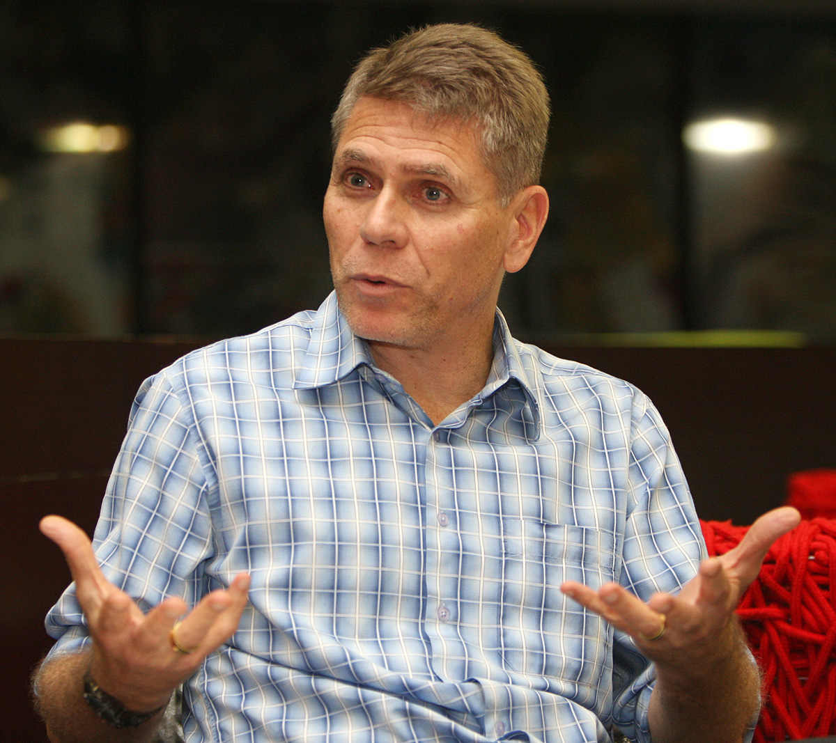 Al Rayyan's Brazilian coach Paulo Autuori during a one-on-one meeting with Doha Stadium Plus.